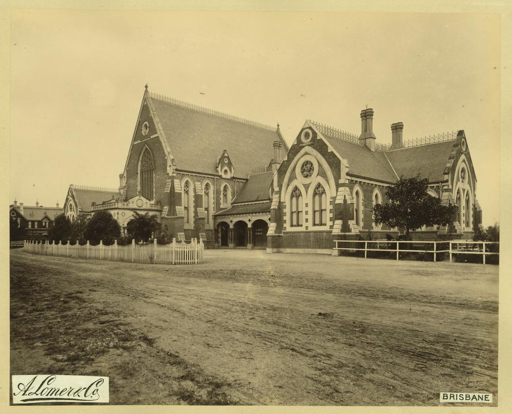 Brisbane Boys' Grammar School, 1889